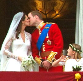 Wedding of Prince William, Duke of Cambridge, and Catherine Middleton - Buckingham Palace.